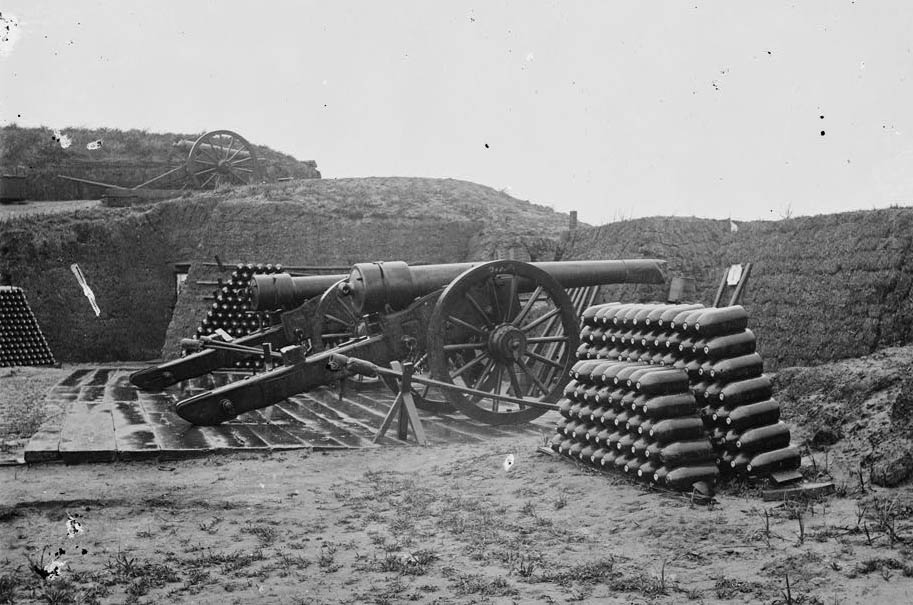 Morris Island, S.C. Two 30-pdr. Parrott guns and stacks of shells inside Fort Putnam